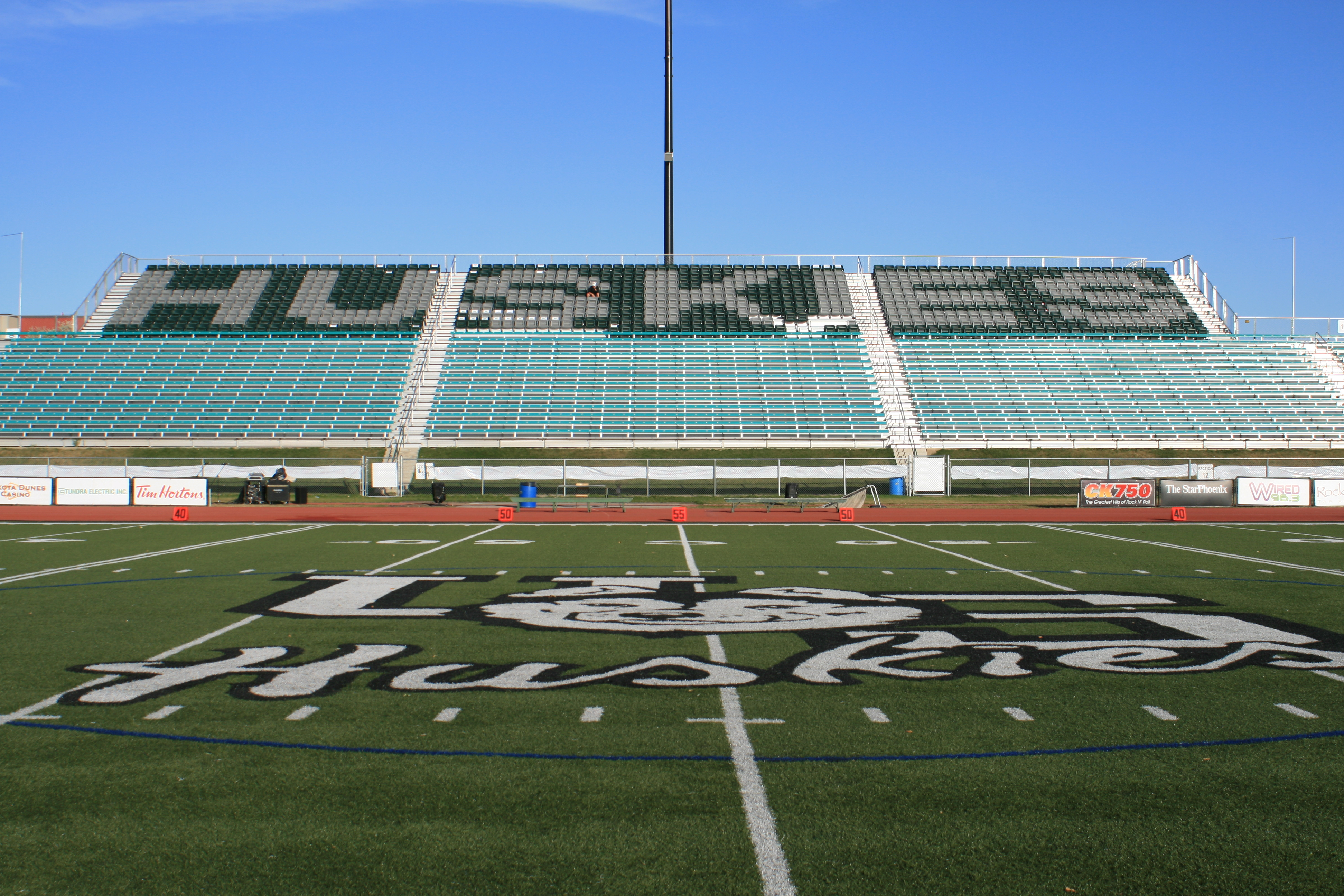 The east side stands of Griffiths Stadium in Saskatoon, Saskatchewan, Canada.